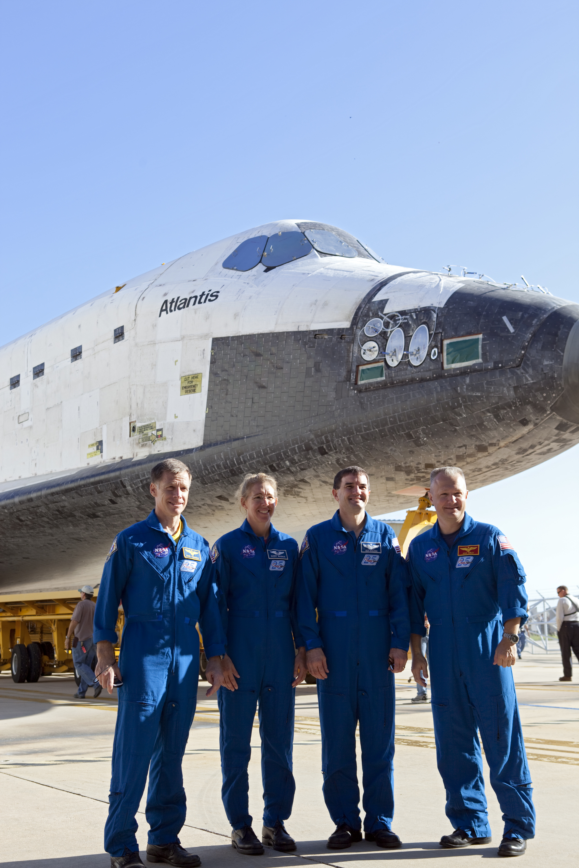 STS-135 Commander Chris Ferguson (left), Mission Specialists Sandra Magnus and Rex Walheim, and Pilot Doug Hurley pause for a photo while watching shuttle Atlantis' rollover from Orbiter Processing Facility-1 to the Vehicle Assembly Building (VAB) at NASA's Kennedy Space Center in Florida. The move called "rollover" is a major milestone in processing for the STS-135 mission to the International Space Station. Inside the VAB, the shuttle will be attached to its external fuel tank and solid rocket boosters. Commander Chris Ferguson, Pilot Doug Hurley and Mission Specialists Sandra Magnus and Rex Walheim are expected to launch in mid July, taking with them the Raffaello multipurpose logistics module packed with supplies, logistics and spare parts. The STS-135 mission also will fly a system to investigate the potential for robotically refueling existing spacecraft and return a failed ammonia pump module to help NASA better understand the failure mechanism and improve pump designs for future systems. STS-135 will be the 33rd flight of Atlantis, the 37th shuttle mission to the space station, and the 135th and final mission of NASA's Space Shuttle Program.